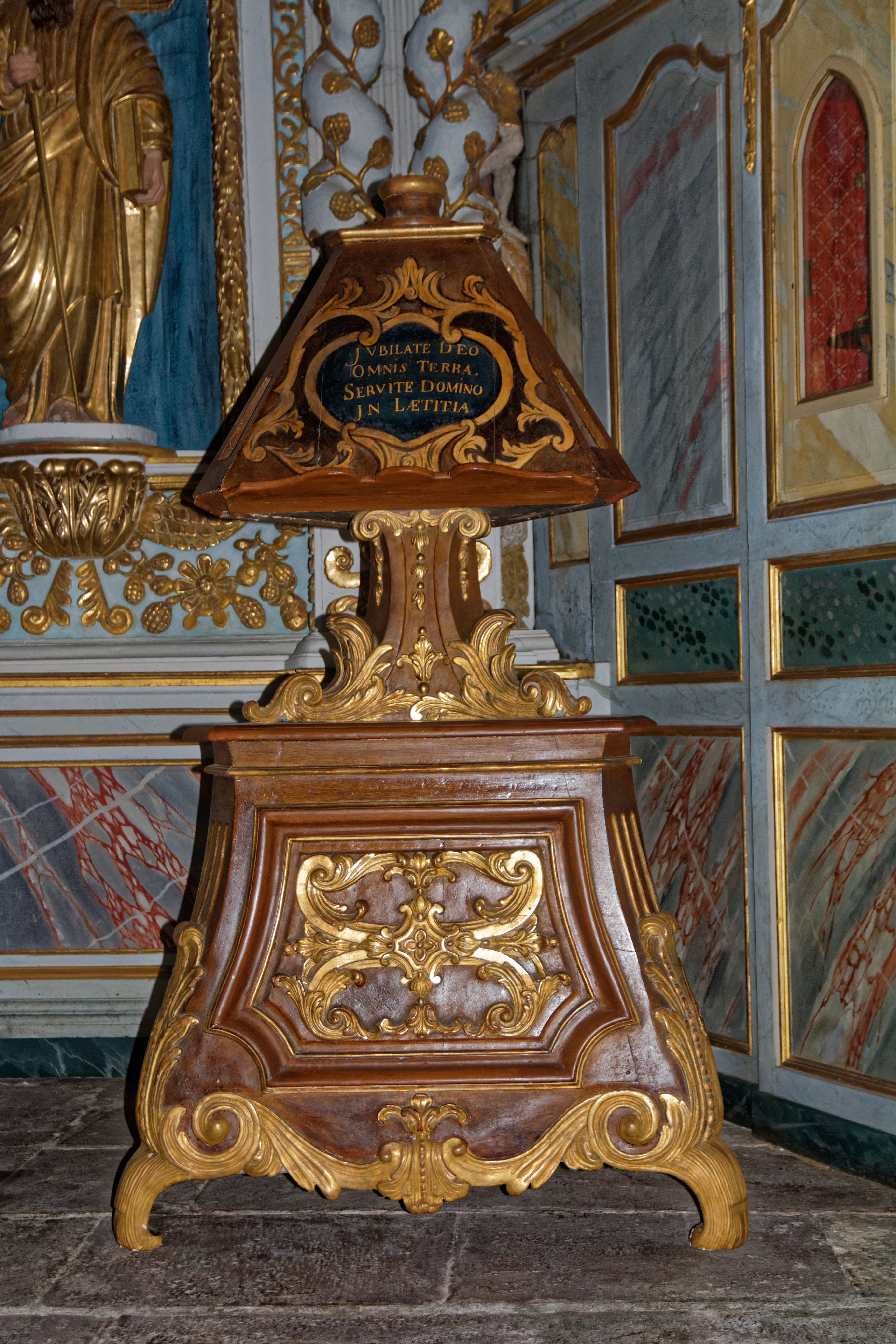 Pulpit bearing the inscription : “ Glorify God in every country. Serve the Lord with gladness ”.